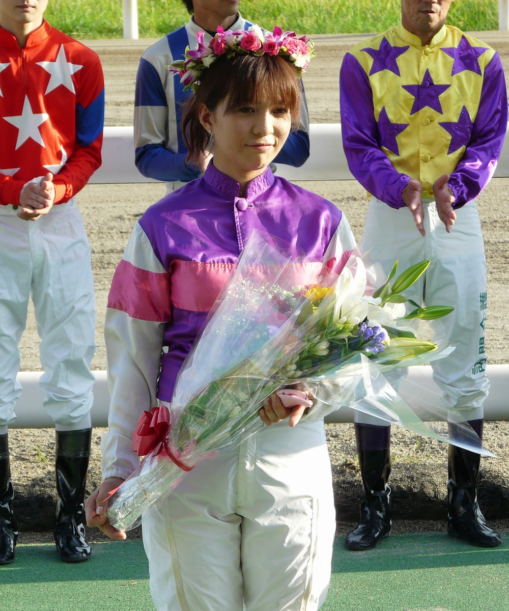 Hitomi-Miyashita20110826